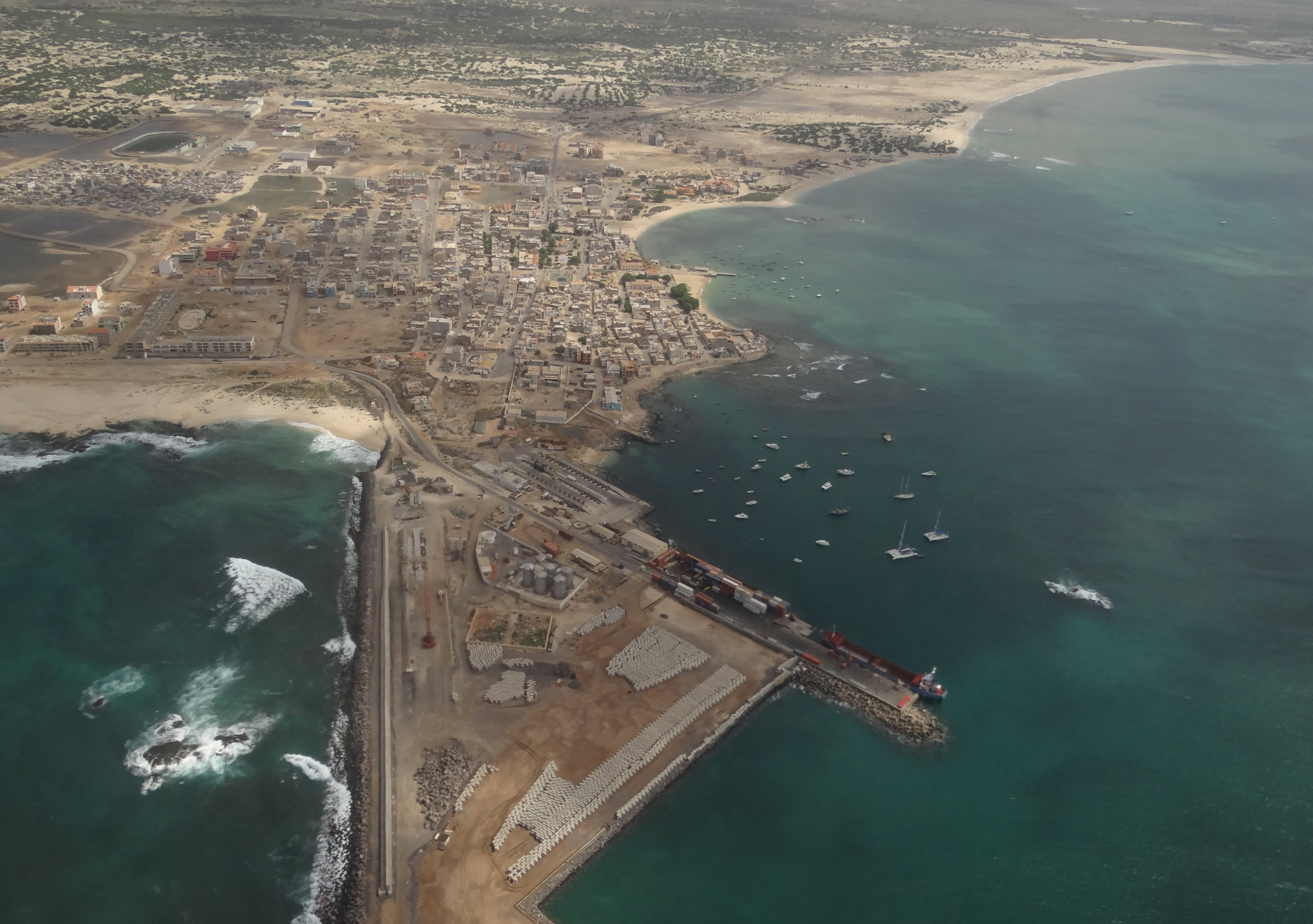 Sal Rei photographed from the west towards the east, from a plane. Closest to us is the port and the ferry terminal with a few departures every week for other islands in Cape Verde. In the middle of the photo is the town centre with the town square lined with a few trees. On the left edge of the photo, below the sports stadium, is an "informal settlement", a shanty-town with few facilities available for the people.